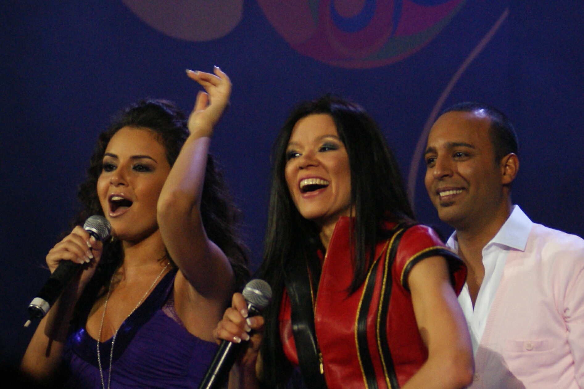 AySel, Ruslana and Arash during the Eurovision Song Contest 2009.